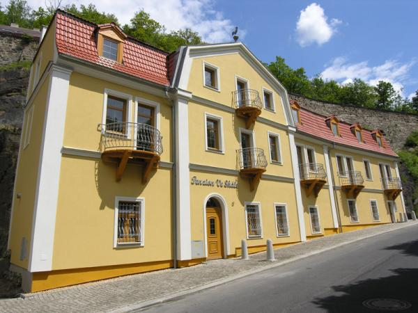 Penzion Ve Skále